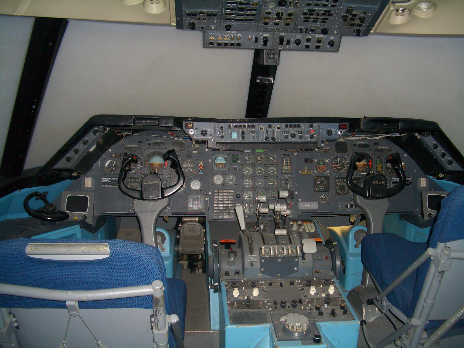 Cockpit of the BA's Lockheed Tristar simulator, at RAF Museum in London.